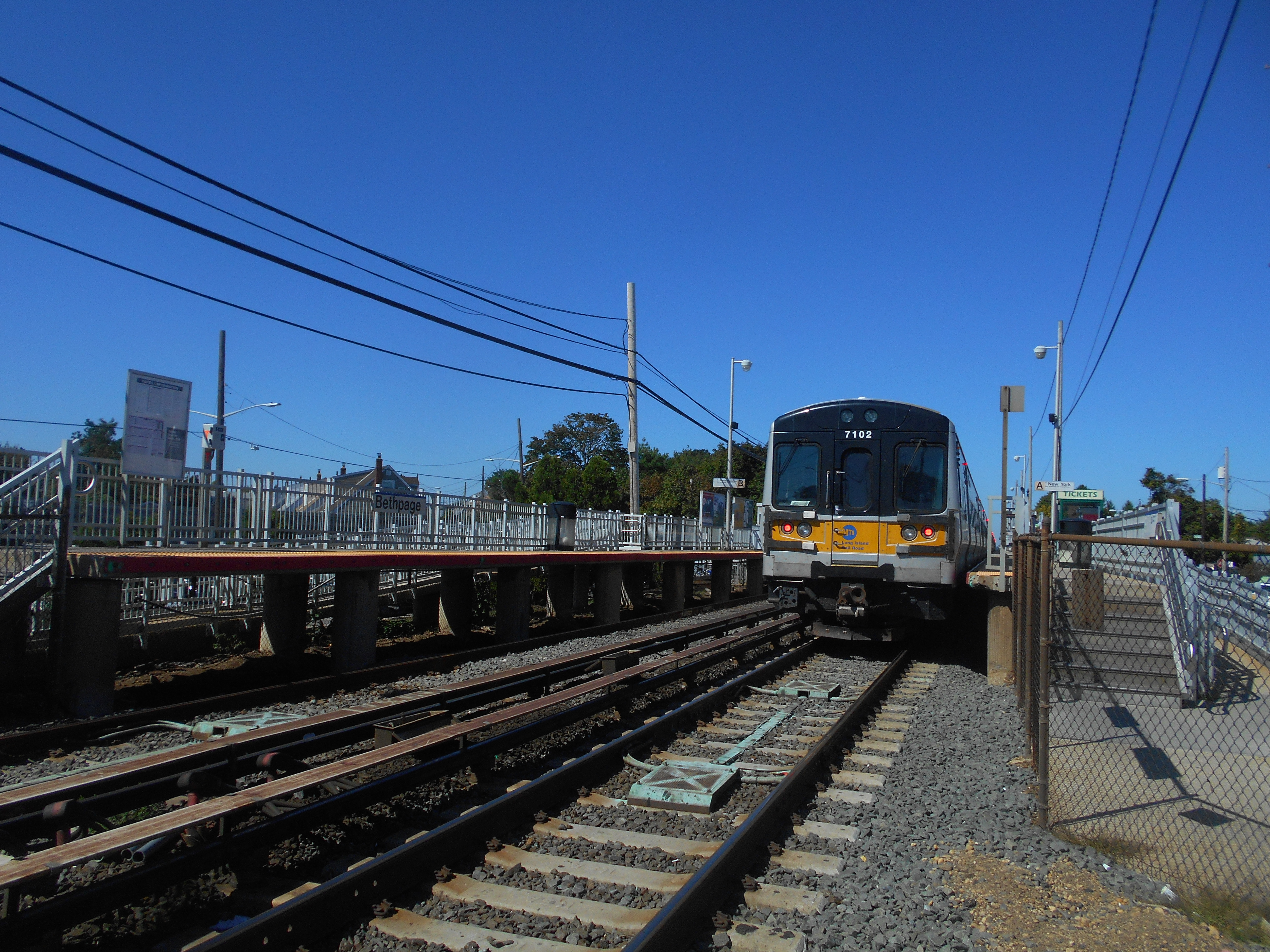 The Bethpage Long Island Rail Road station in Bethpage, New York